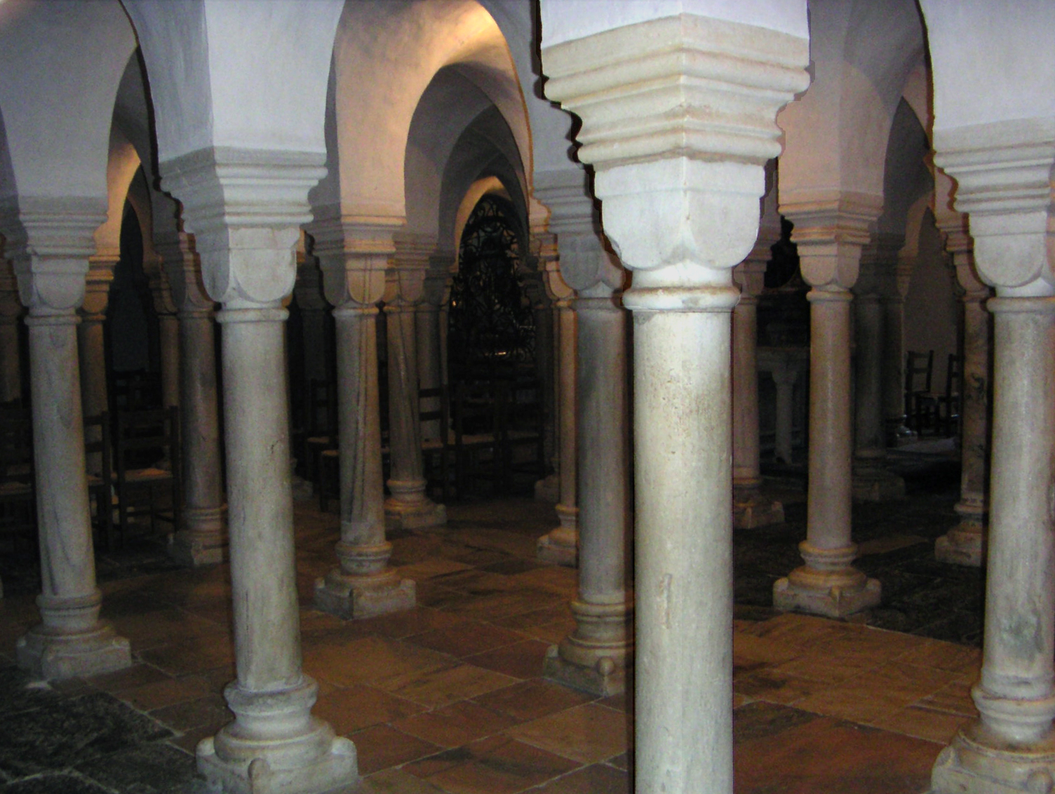 Crypt of the Gurk cathedral, Carinthia, Austria